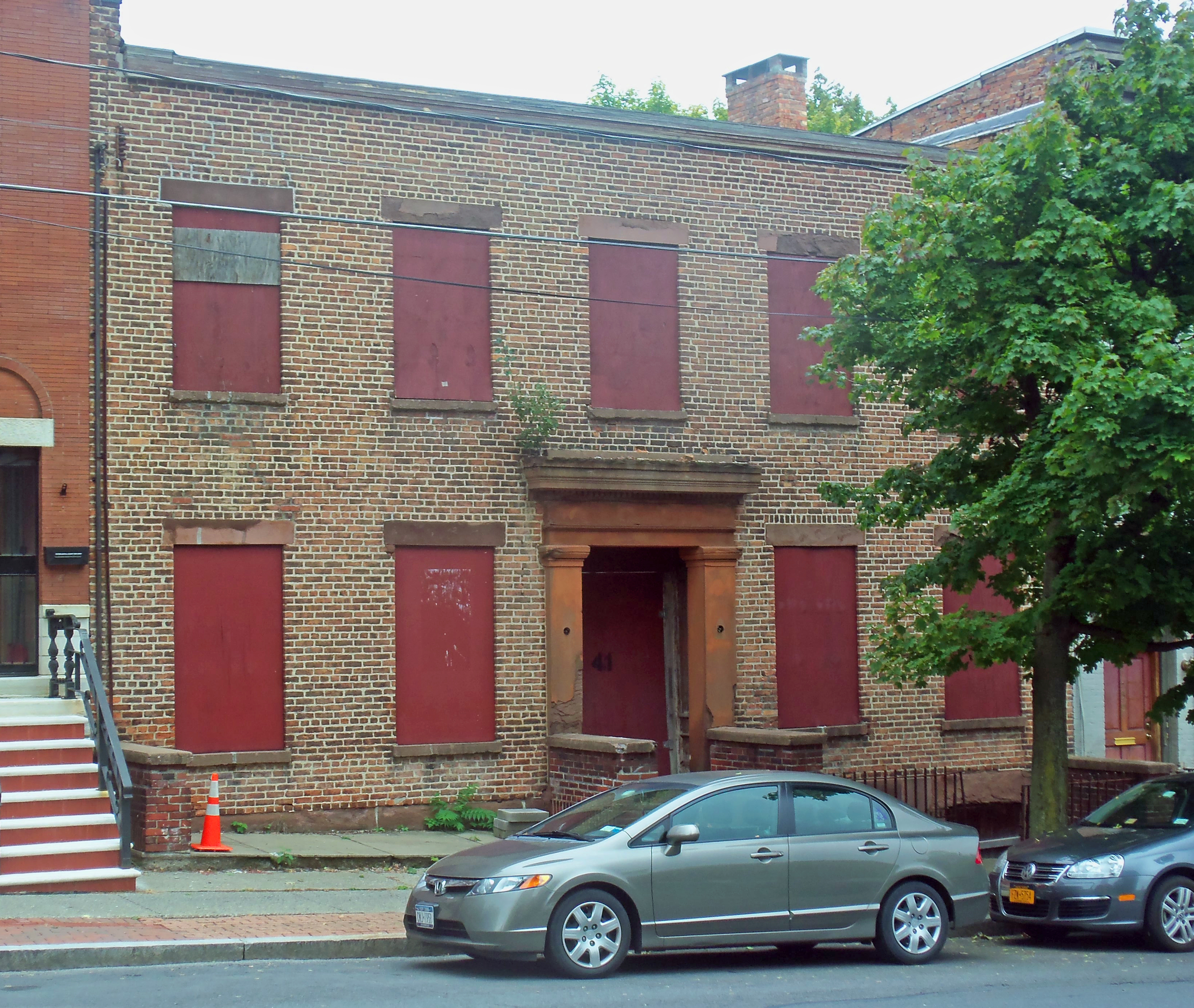 Facade of 41 Ten Broeck Street, a contributing property to the Arbor Hill Historic District, Albany, NY, USA, preserved after rest of building was demolished